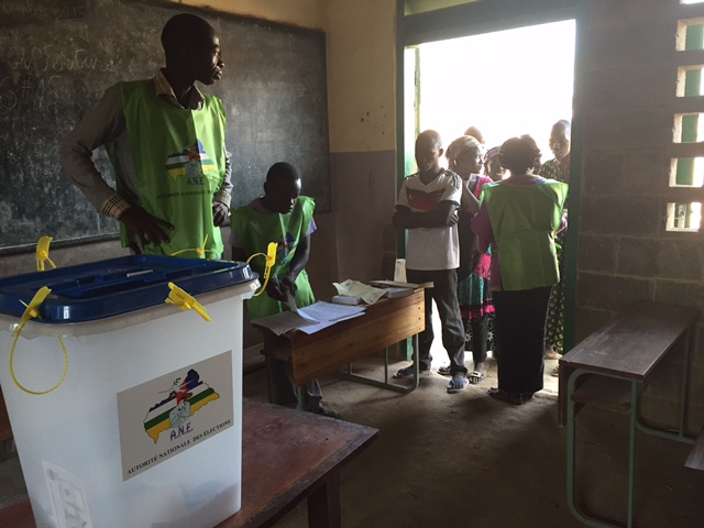 In the Combattant district of Bangui, the vote began 15 minutes late, but there is very little participation while it is one of the major voting centers of the city. December 13, 2015. (VOA Africa / Tatiana Mossot)